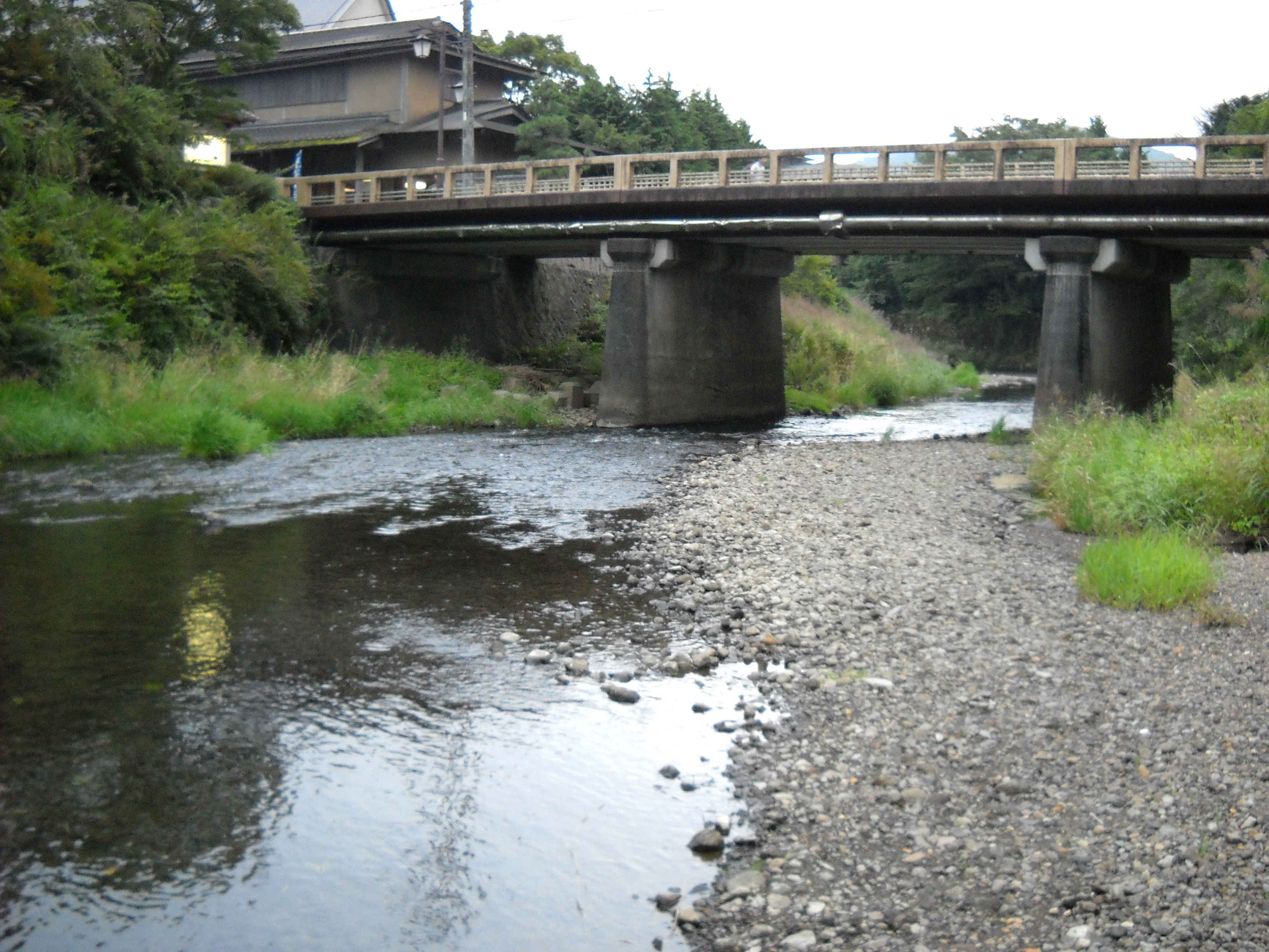 Oharabashi Bridge, Hayakawa River, Sengokuhara, Hakone, Kanagawa, Japan